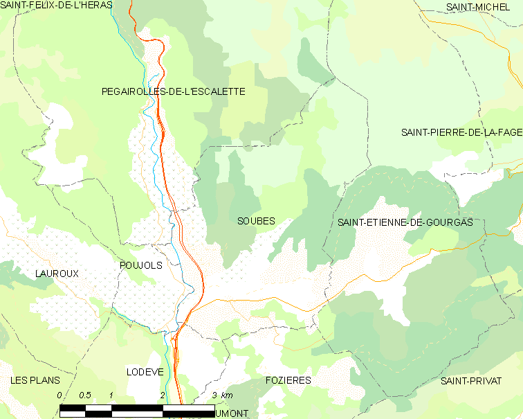 Map commune FR insee code 34304.png - Soubès